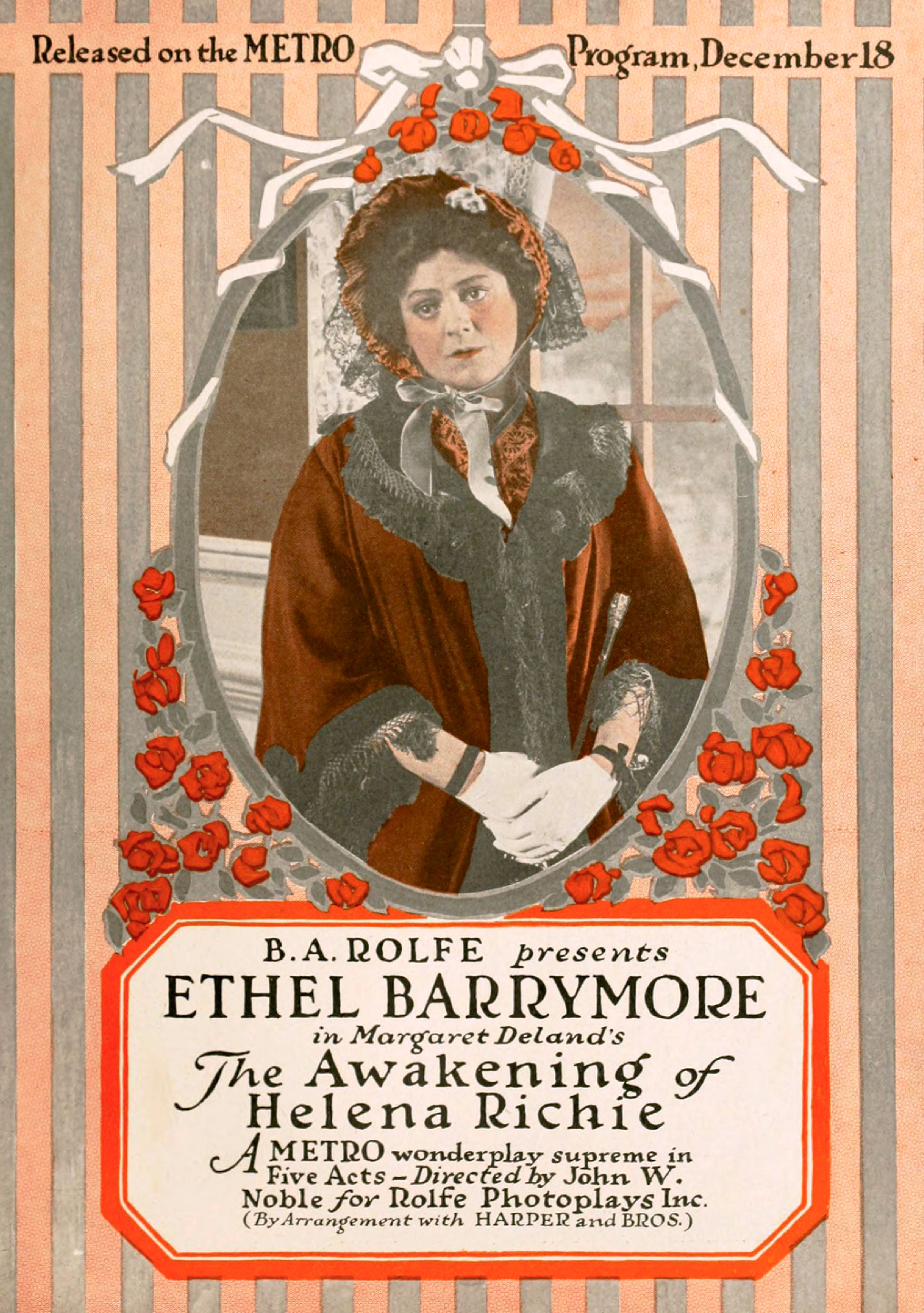 Ad for the 1916 film The Awakening of Helena Richie from Motion Picture World.